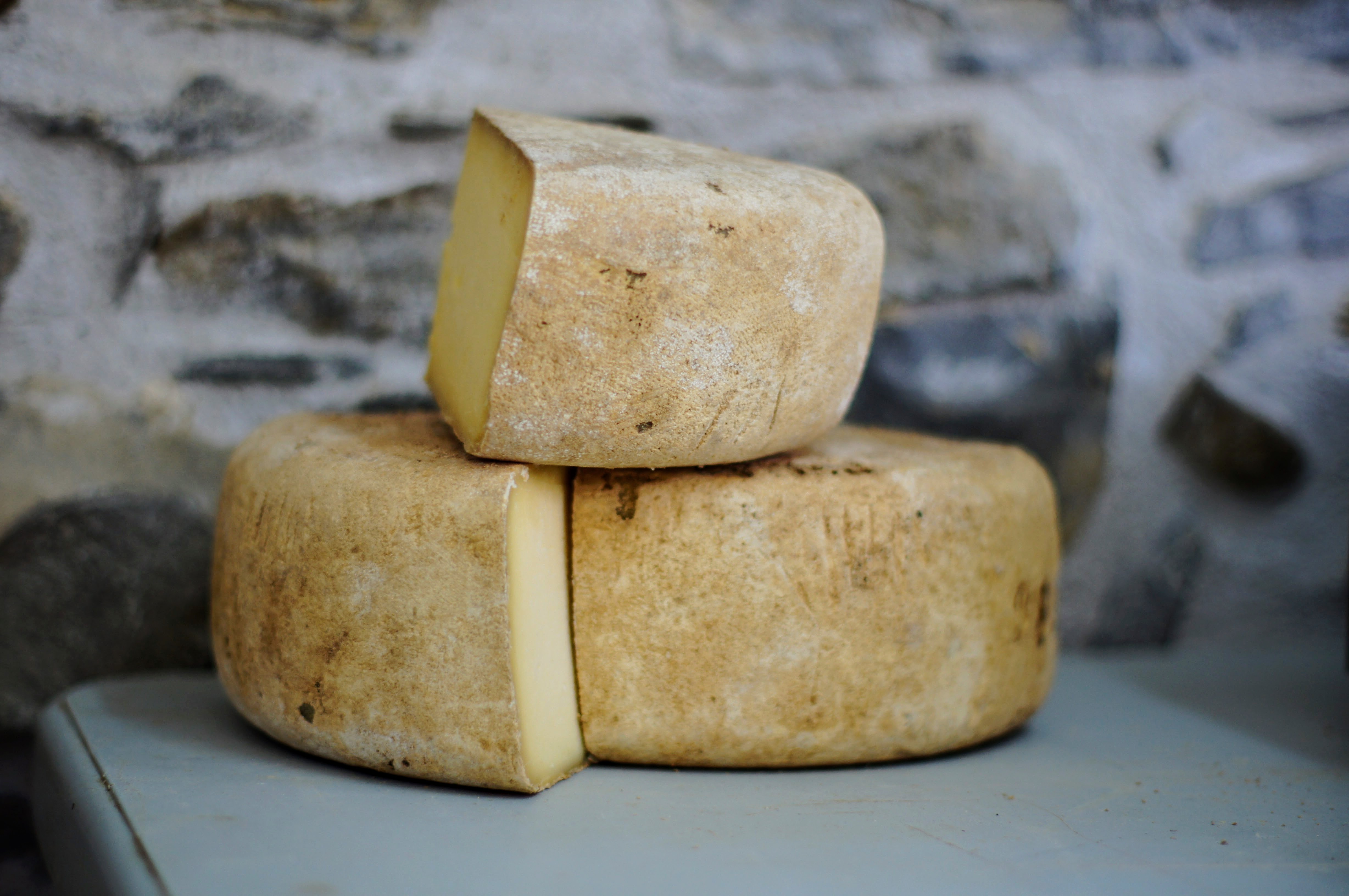 Sainte-Colome, France